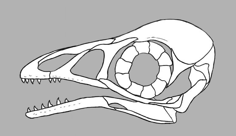 A skull diagram of Bohaiornis guoi, a large species of enantiornithean avialan ("bird" in the traditional sense). Mainly derived from specimen IVPP V17963.